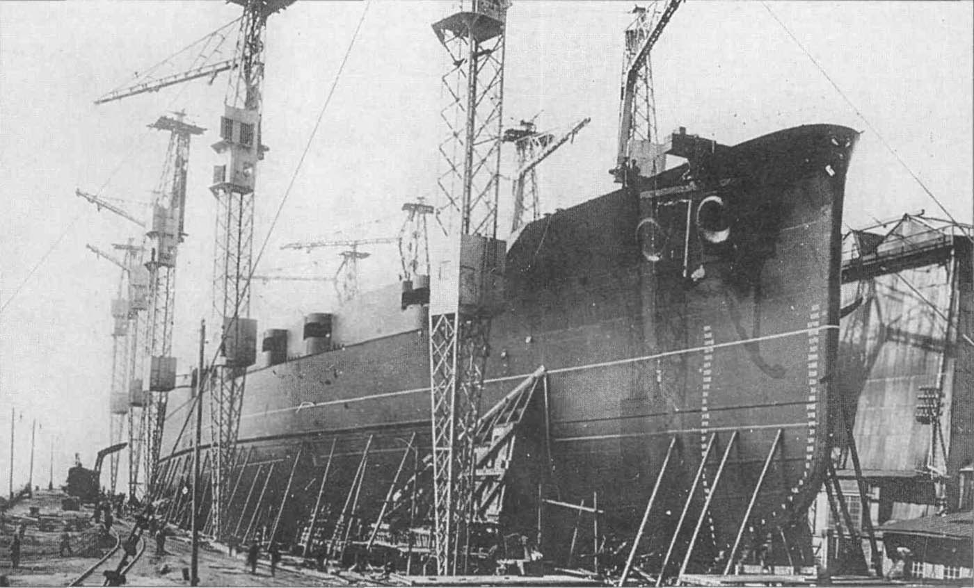 Battleship Imperatritsa Ekaterina Velikaya.